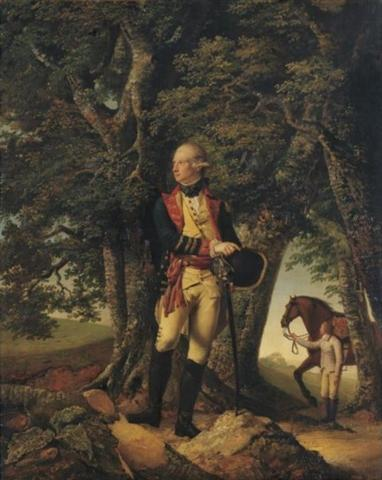 Portrait of Robert Shore Milnes (1754-1837), with horse and groom in background.